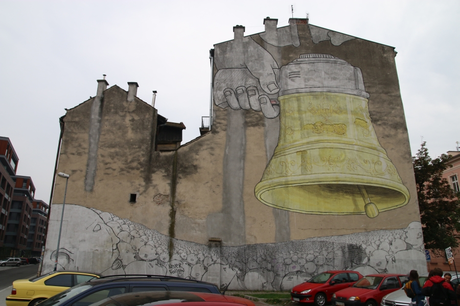 Kraków - "Ding Dong Dumb" mural by BLU, 3 Józefińska Street